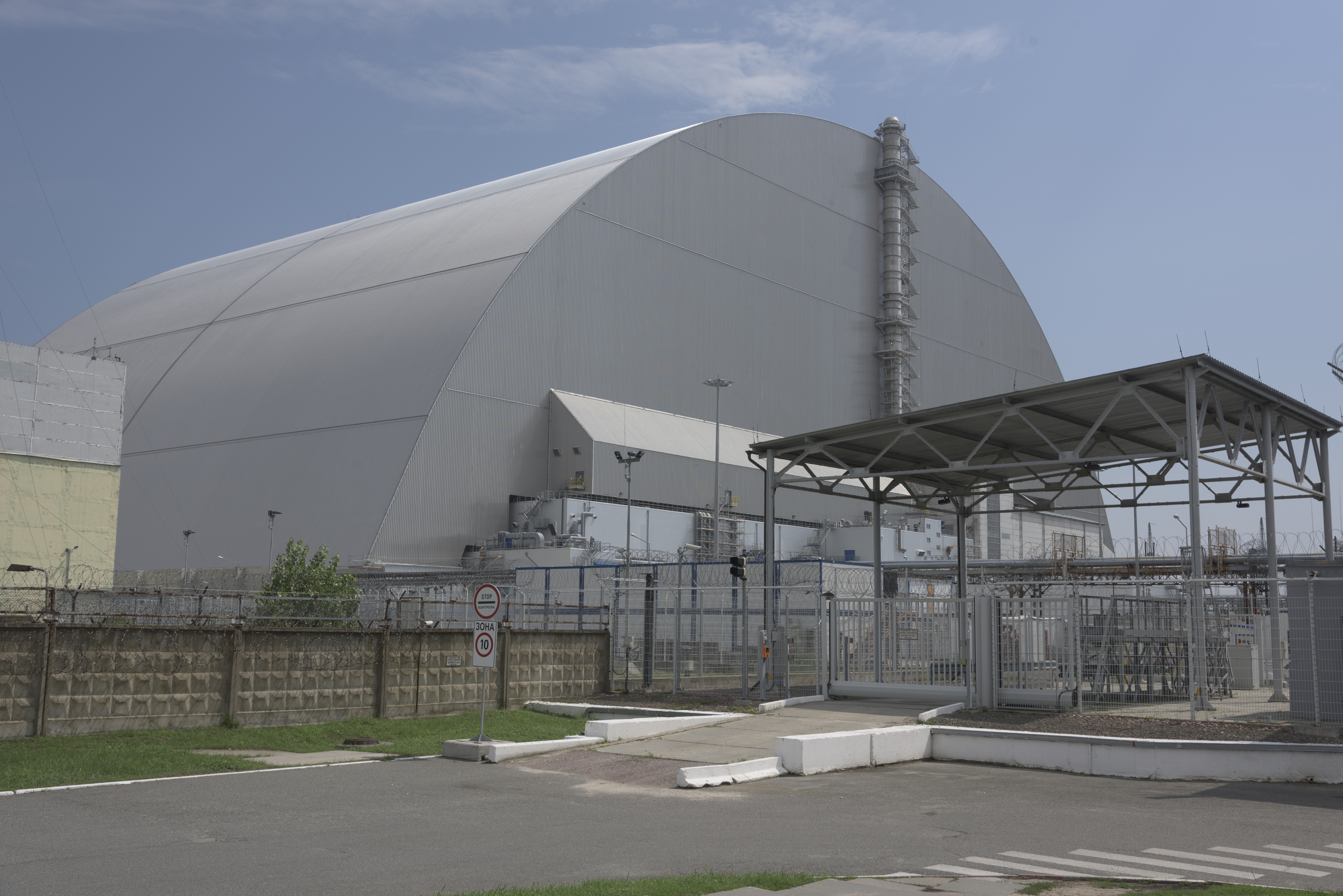 The so called New Safe Confinement colloquially known as the second sarcophagus in 2018.